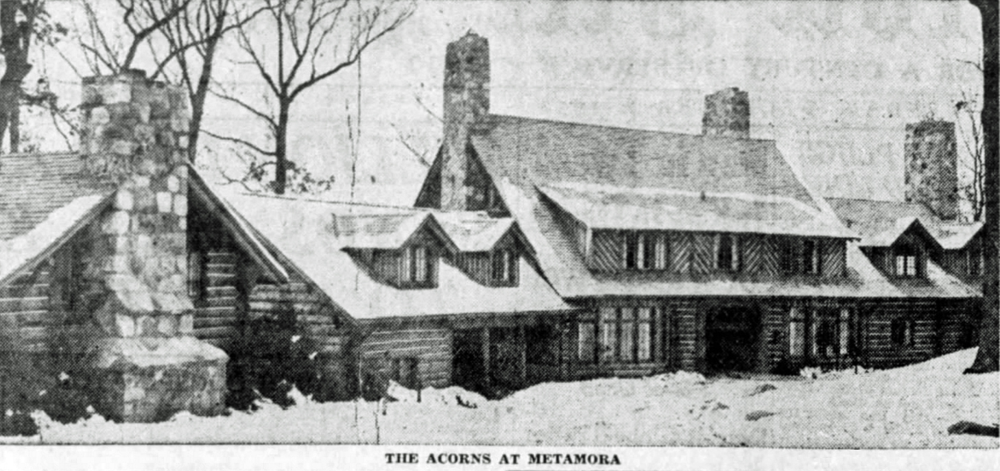 The Acorns by Hugh T. Keyes, Metamora, Michigan